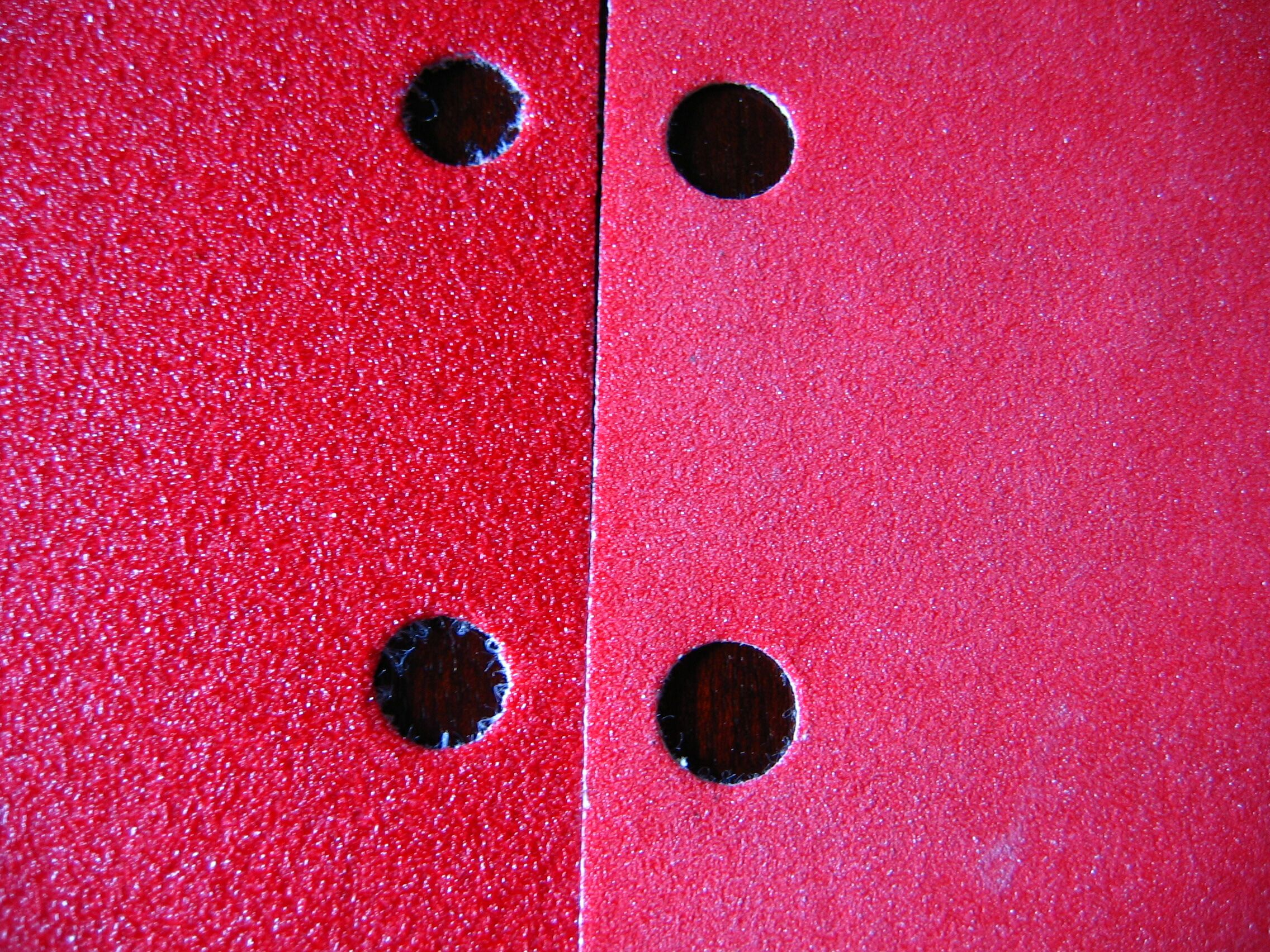 Closeup of two sheets of sand paper for a papering machine (roughest to the left).